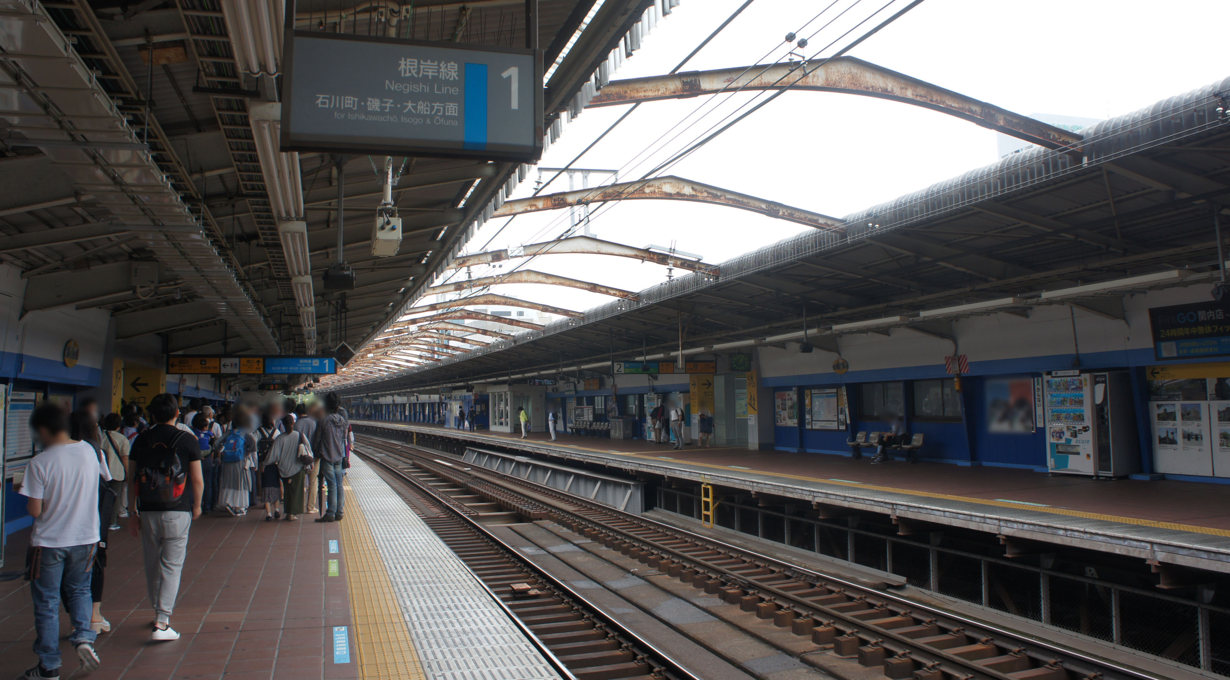 Platform of JR Negishi-Line Kannai Station